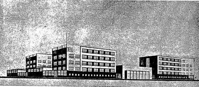 Buildings of Jewish Schools Society schools in Łódż, Aleja Anstadta 7